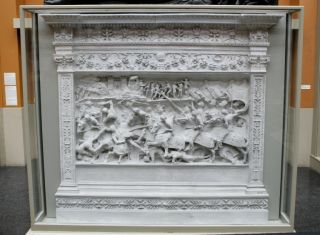 Plaster cast of a Battle scene by Gian Cristoforo Romano 1491-1497 (sculpted), ca. 1884 (cast) V&A Museum no. REPRO.1884-669 Place - Milan (city), Italy (sculpted and cast) Dimensions - Height 137.5 cm (with base), Width 170.5 cm